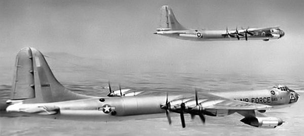 B-36Fs of the 6th Bomb Wing - Walker AFB New Mexico.